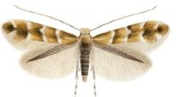 Cameraria ohridella